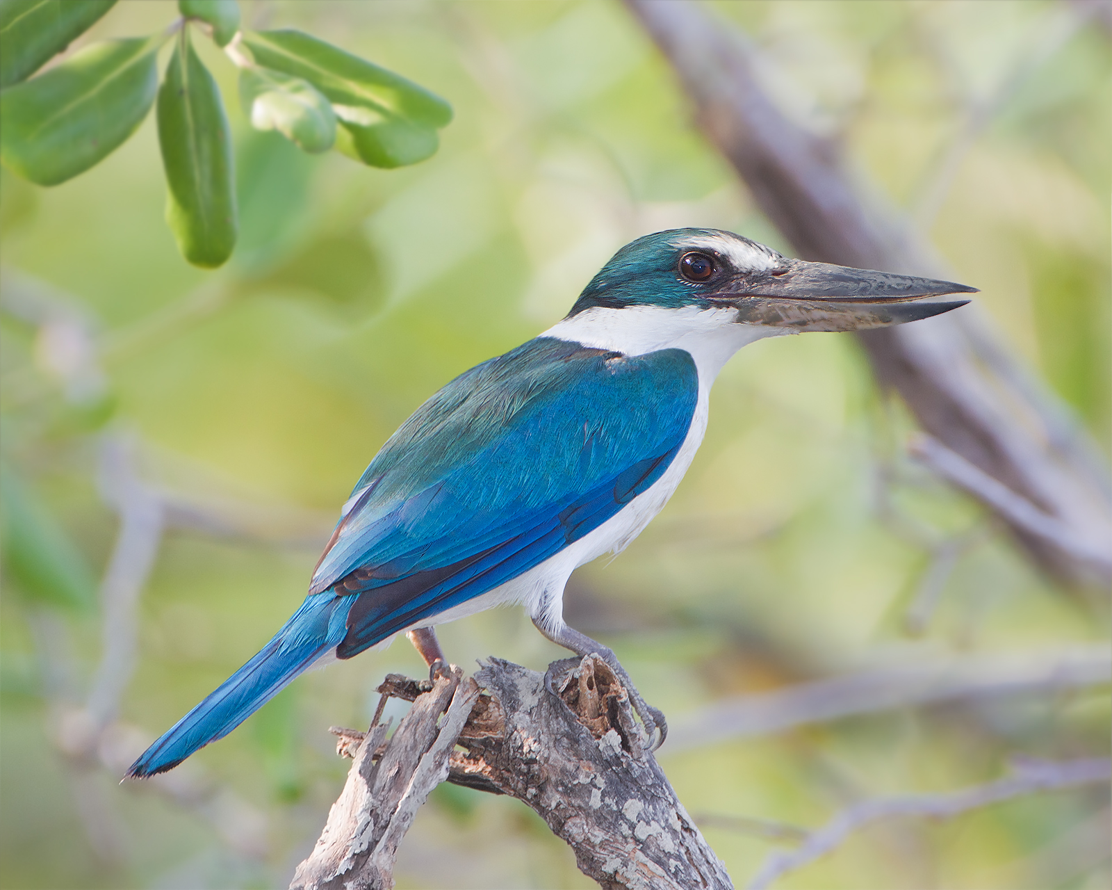 Collared Kingfisher (Todiramphus chloris), Pak Thale, Ban Laem, Phetchaburi, Thailand